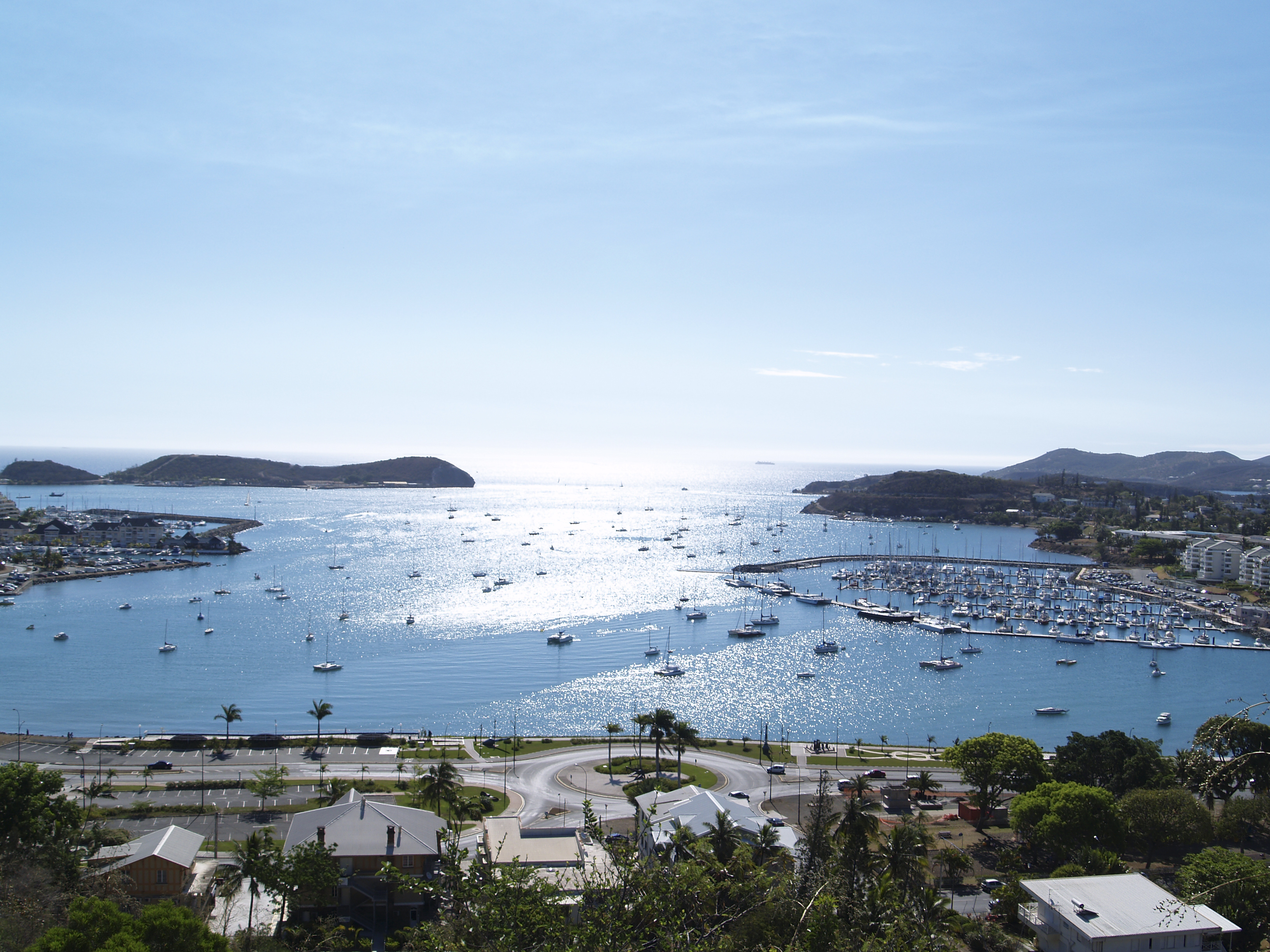 Baie de l'orphelinat, Location: Nouméa